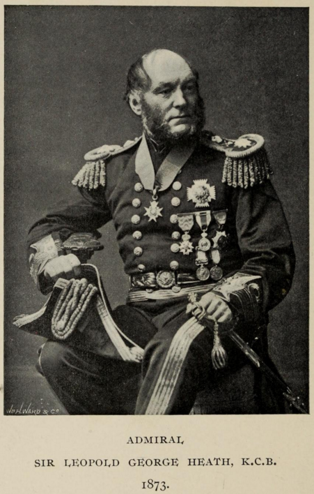 This photograph of Admiral Sir Leopold George Heath, KCB, it taken from his book 'Letters from the Black Sea during the Crimean War 1854 - 1855, published by Richard Bentley and Son of London in 1897.